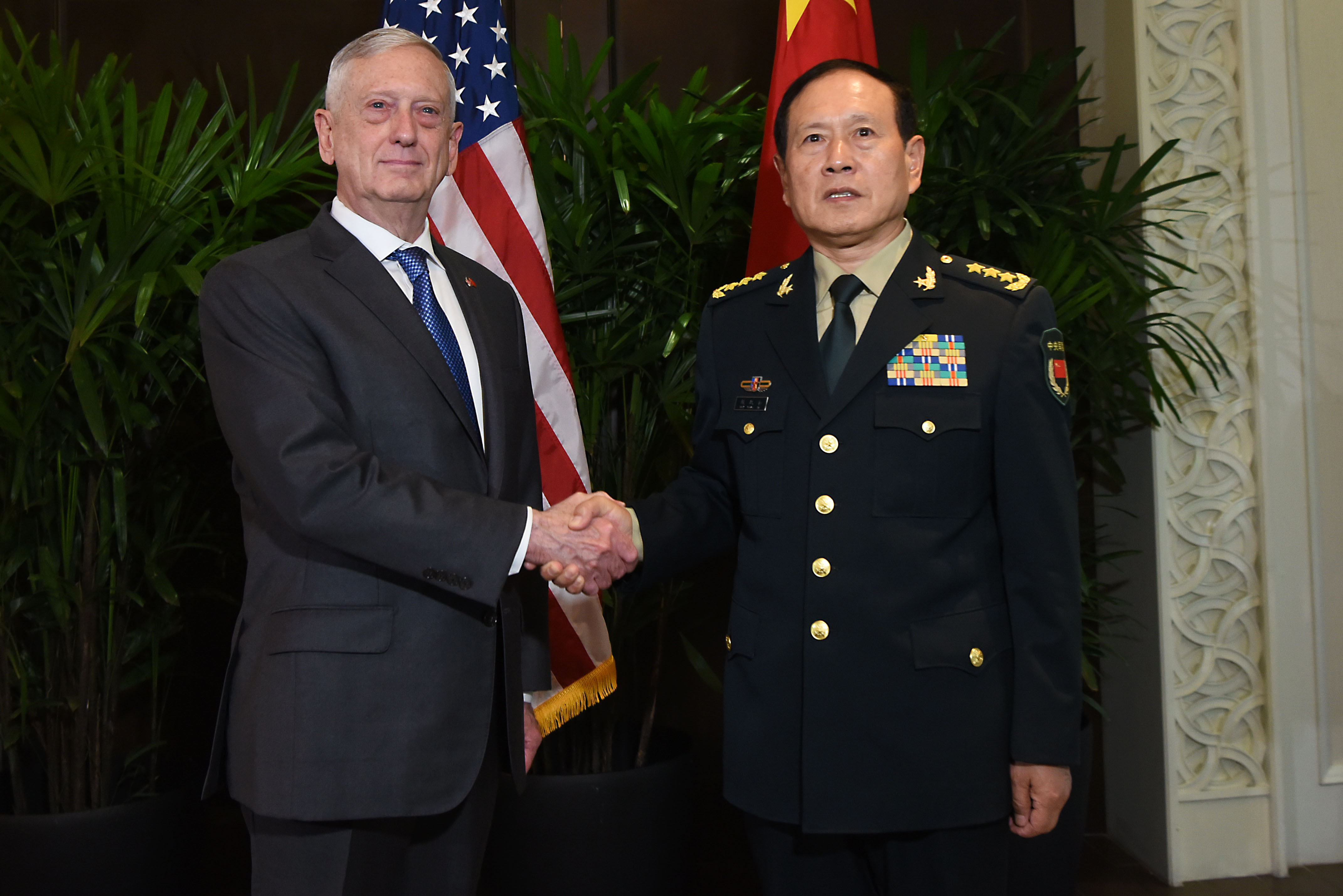 U.S. Secretary of Defense James N. Mattis meets with China's Minister of National Defence Gen. Wei Fenghe at the ASEAN Defense Ministers’ Meeting, Singapore, Oct. 18, 2018. (DOD photo by Lisa Ferdinando)